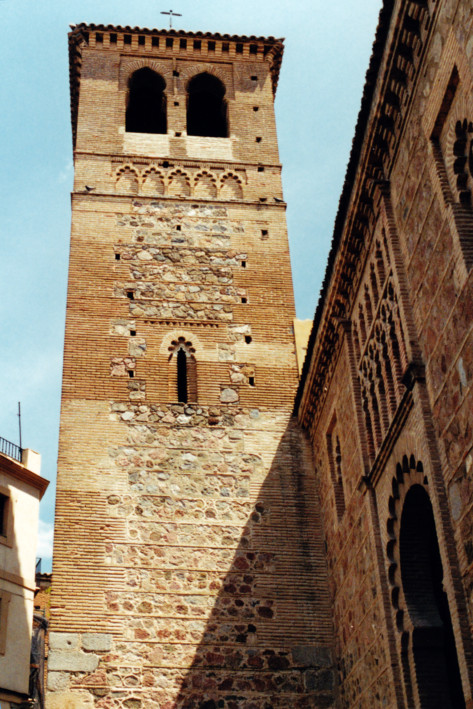 Spain - Toledo - Church of Santa Leocadia